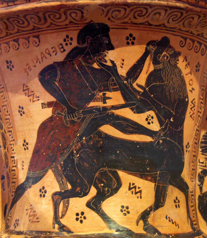 Herakles fighting the centaur Nessos, identified by inscriptions. Detail from the neck of an Attic black-figure amphora by the Nessos Painter (eponymous vase), ca. 620–610 BC. From a tomb in Piraeus Street, Athens. J. D. Beazley, Paralipomena, 2, 6.